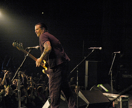 Matt Freeman photographed at the Newcastle Carling Academy, 2007.